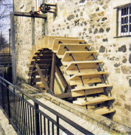 The dalgarven Mill waterwheel following renovation.